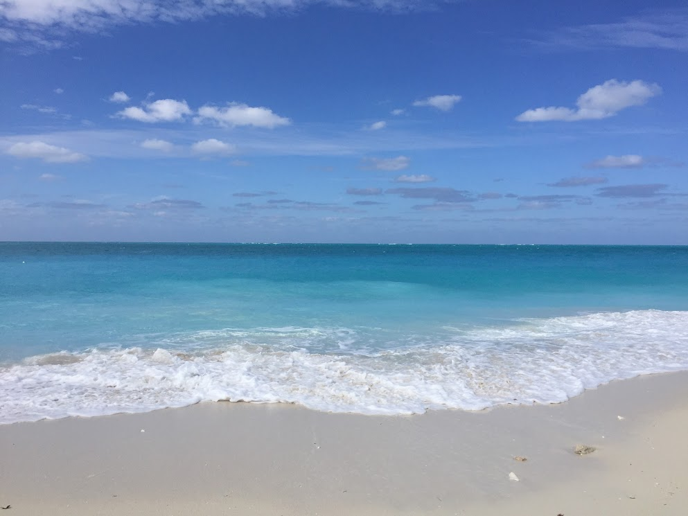 White sands of Providenciales, Turks & Caicos